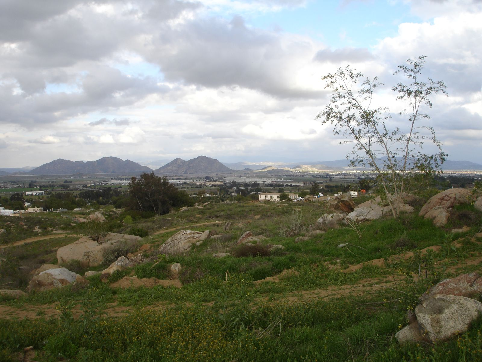 Perris, California